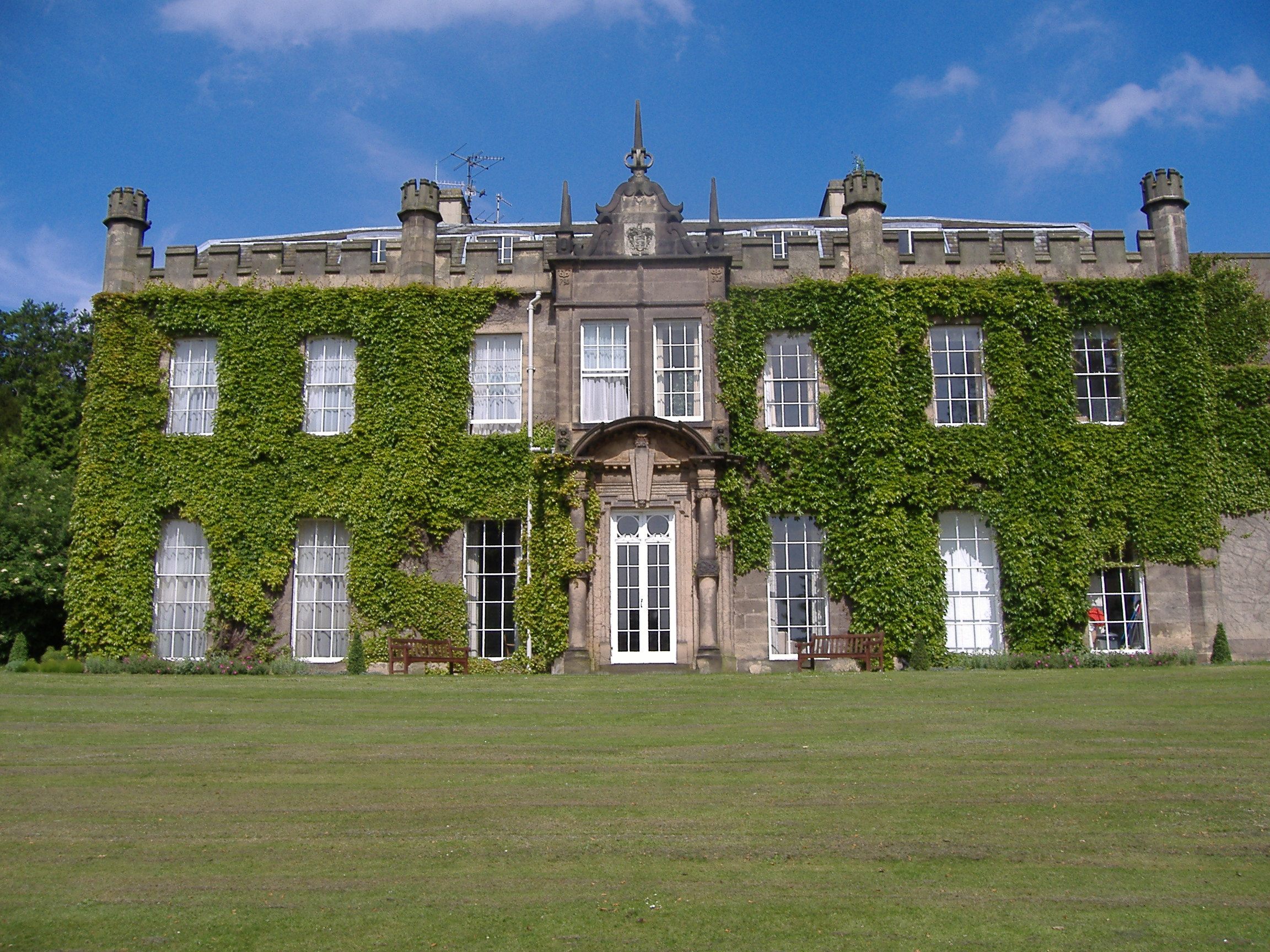 Hugh Stewart hall - Warden's Lodge.